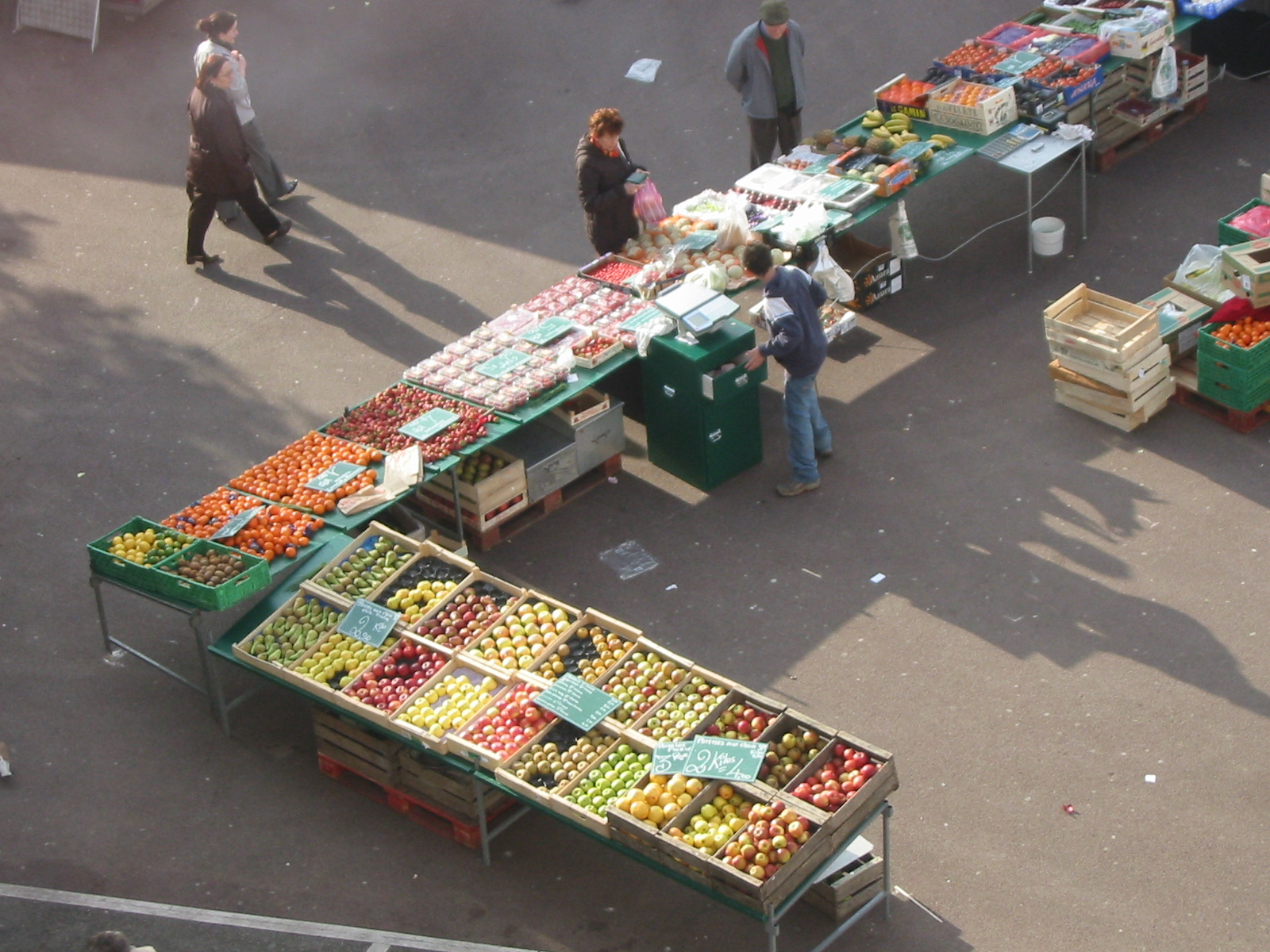 Cherbourg (France): above a fruits market. Cherbourg (Manche):marché aux fruits vu de haut.